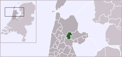 Locator map of Dutch municipalities in Noord-Holland (LocatieOpmeer.png)